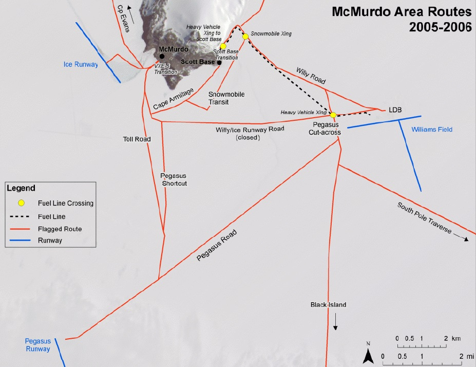 McMurdo Area Routes 2005-2006, showing Pegasus Field, Ross Island, and other localities